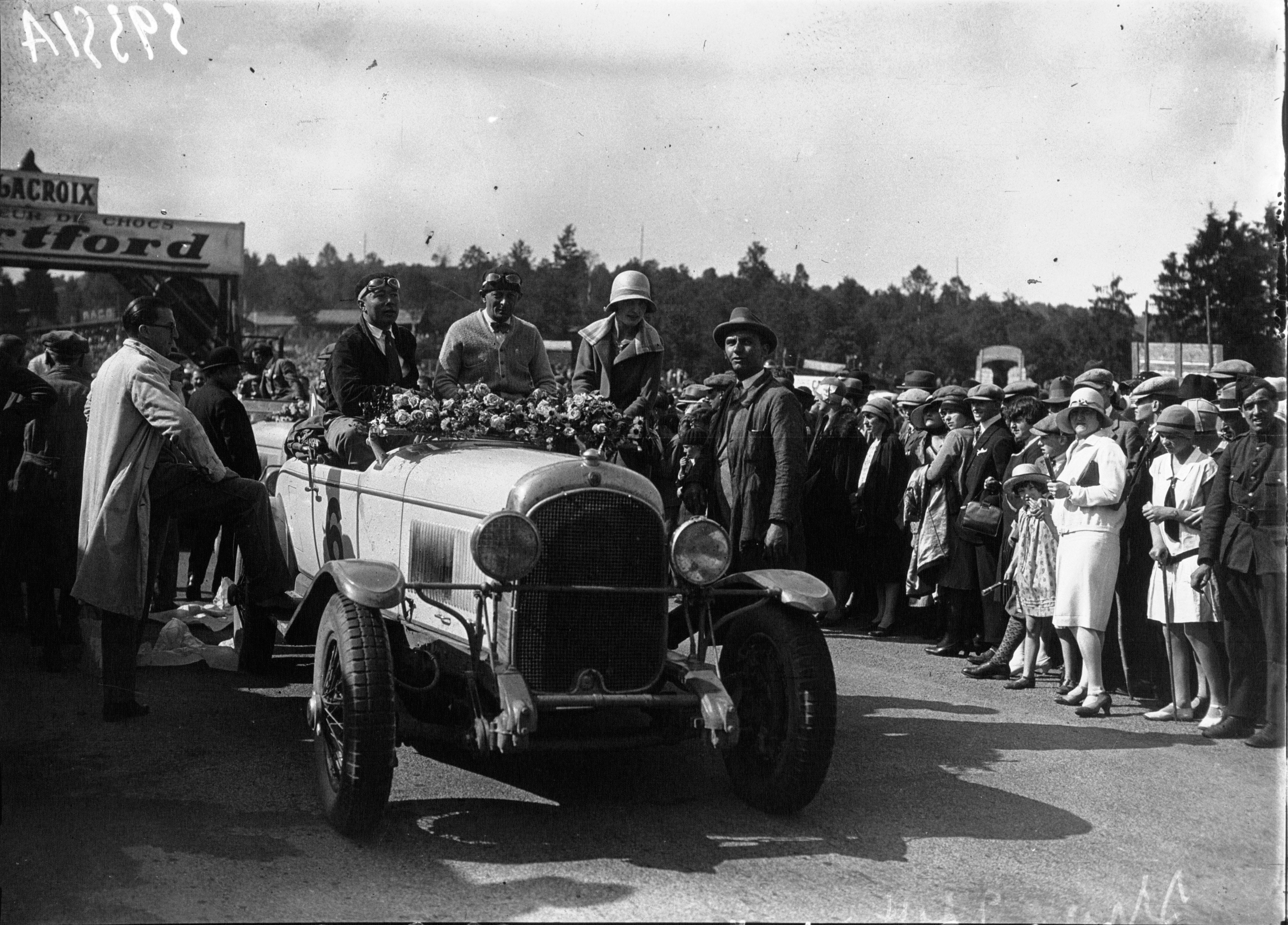 Cyril de Vère and Marcel Mongin at the 1928 24 Hours of Spa.